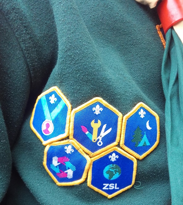 A Cub Scout from Leyton wearing some of the revised Challenge Badges introduced by The Scout Association in 2015.